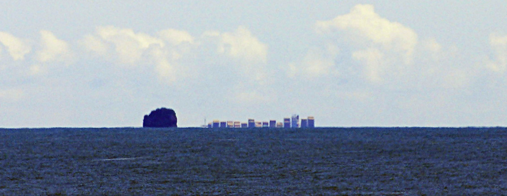 The 'Rena', hull down and aground on Astrolabe Reef north of our beach house. Oil has reached the beach a few miles north of us and we fear the worst. The Island to the left of the bow is actually about four miles south of the ship. Astrolabe Reef is about 100m long and the same wide and a great diving spot. It would take great skill to hit it.